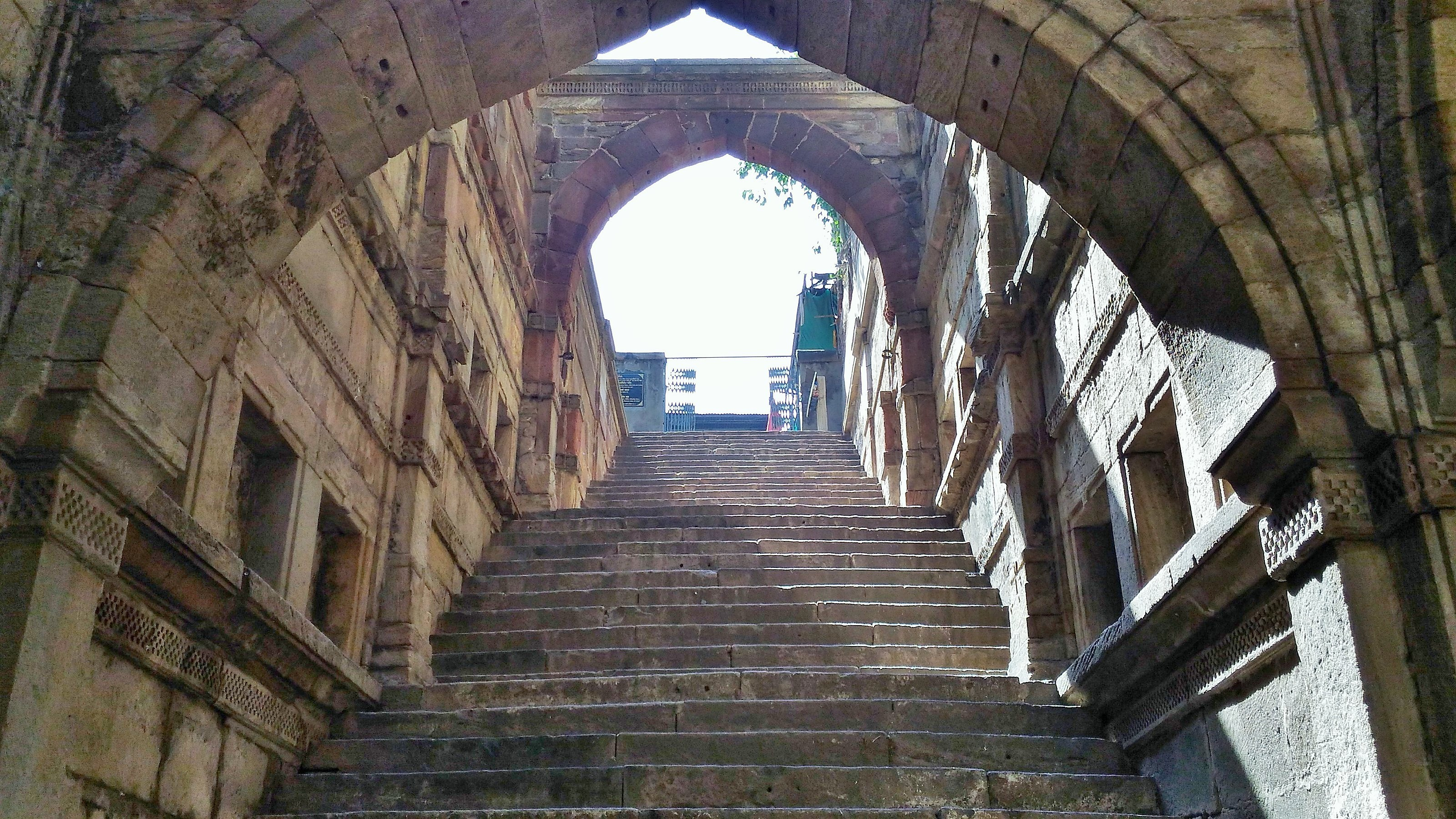 Amritavarshini Stepwell This picture show steps of Amritavarshini Stepwell from bottom to top.